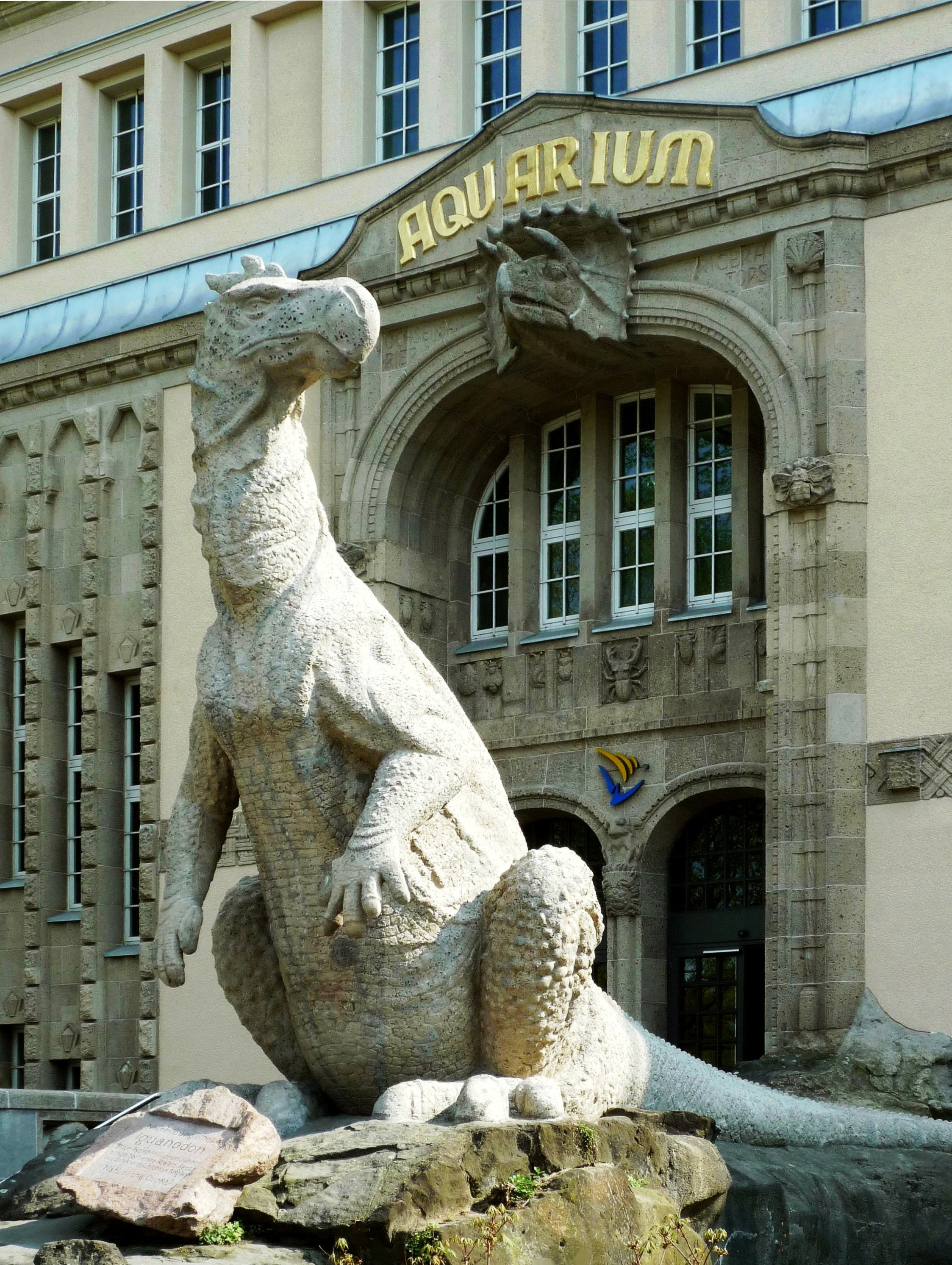 Zoo Aquarium Berlin, entrance from the Zoological Garden. Beside the staircase: the sculpture of a Iguanodon.